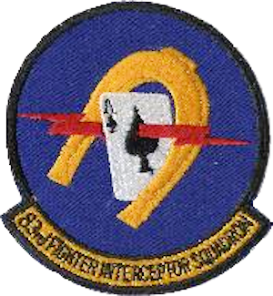 Emblem of the USAF 83d Fighter-Interceptor Squadron (ADC)